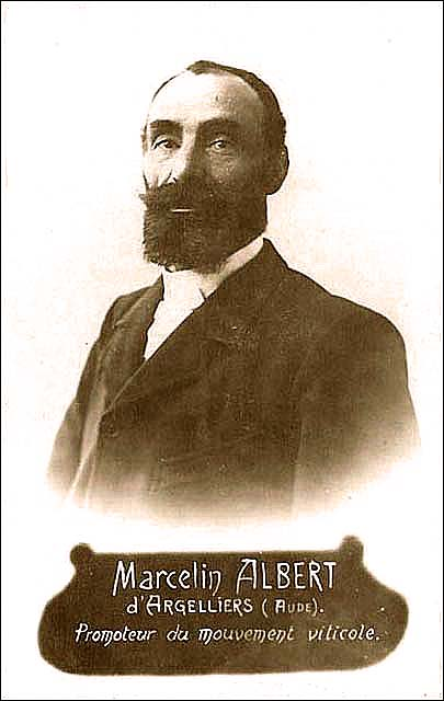 Marcelin Albert